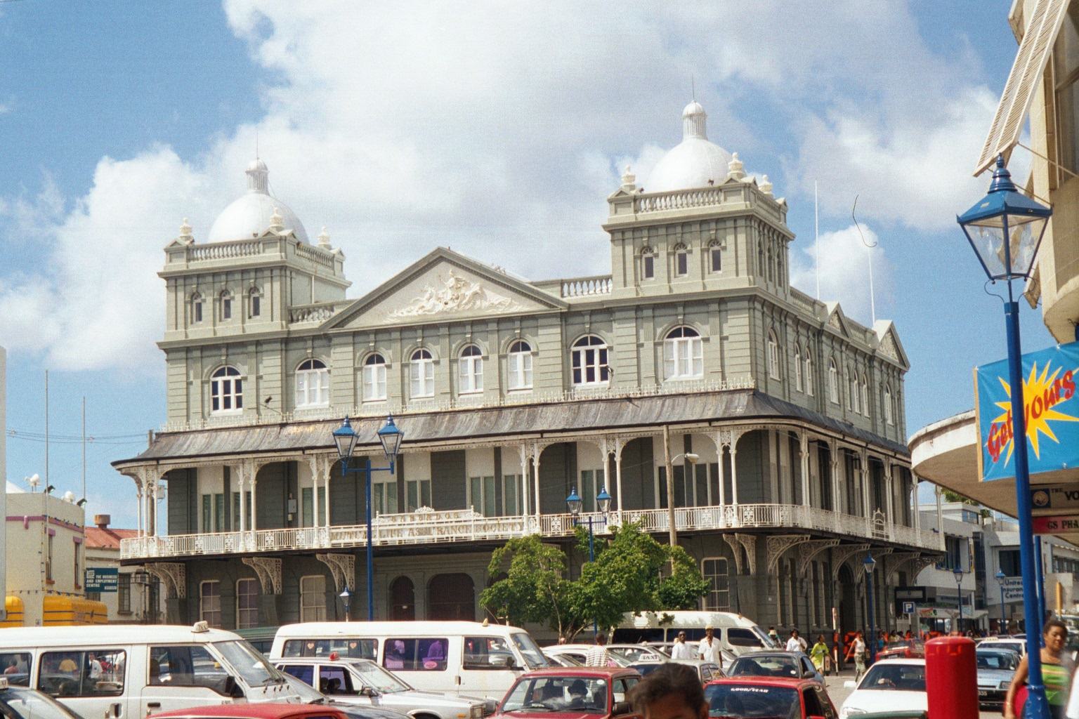 The iconic Barbados Mutual Life Assurance Society building from Broad Street, Bridgetown. (c.a. November 2000)